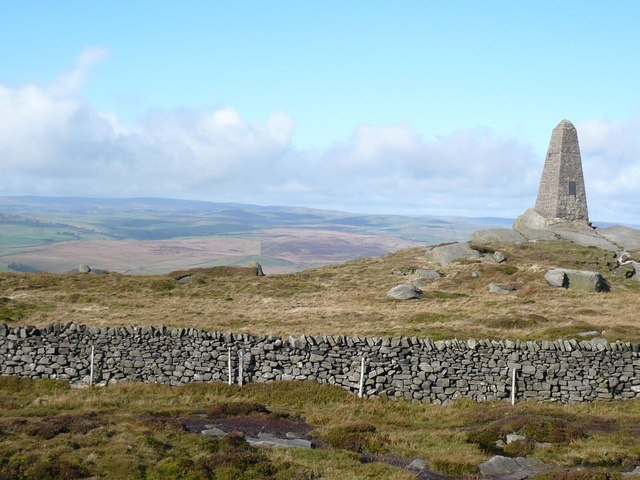 Cracoe Obelisk landscape